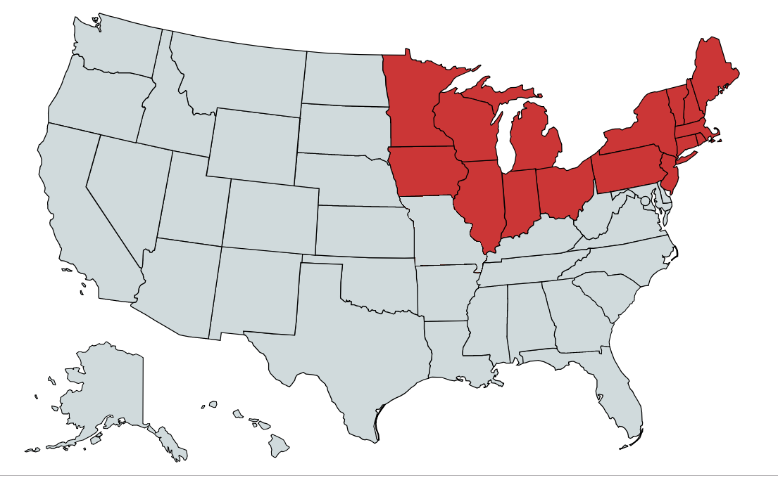 Northern U.S. in general